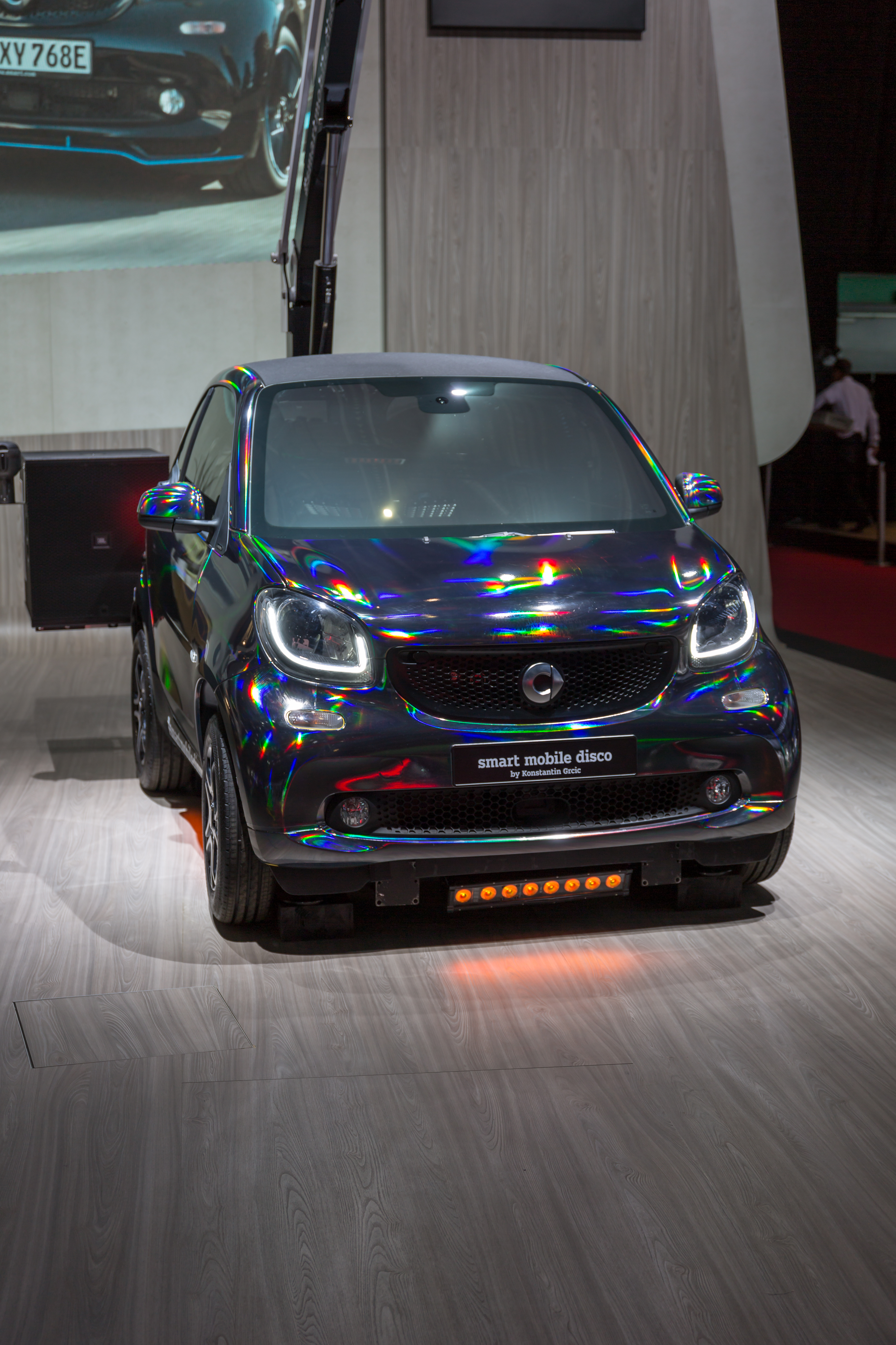 Press days at Mondial Paris Motor Show 2018